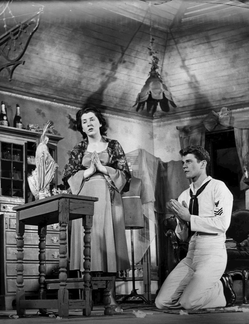 Photo of Maureen Stapleton and Don Murray from the 1951 Broadway presentation of The Rose Tattoo.